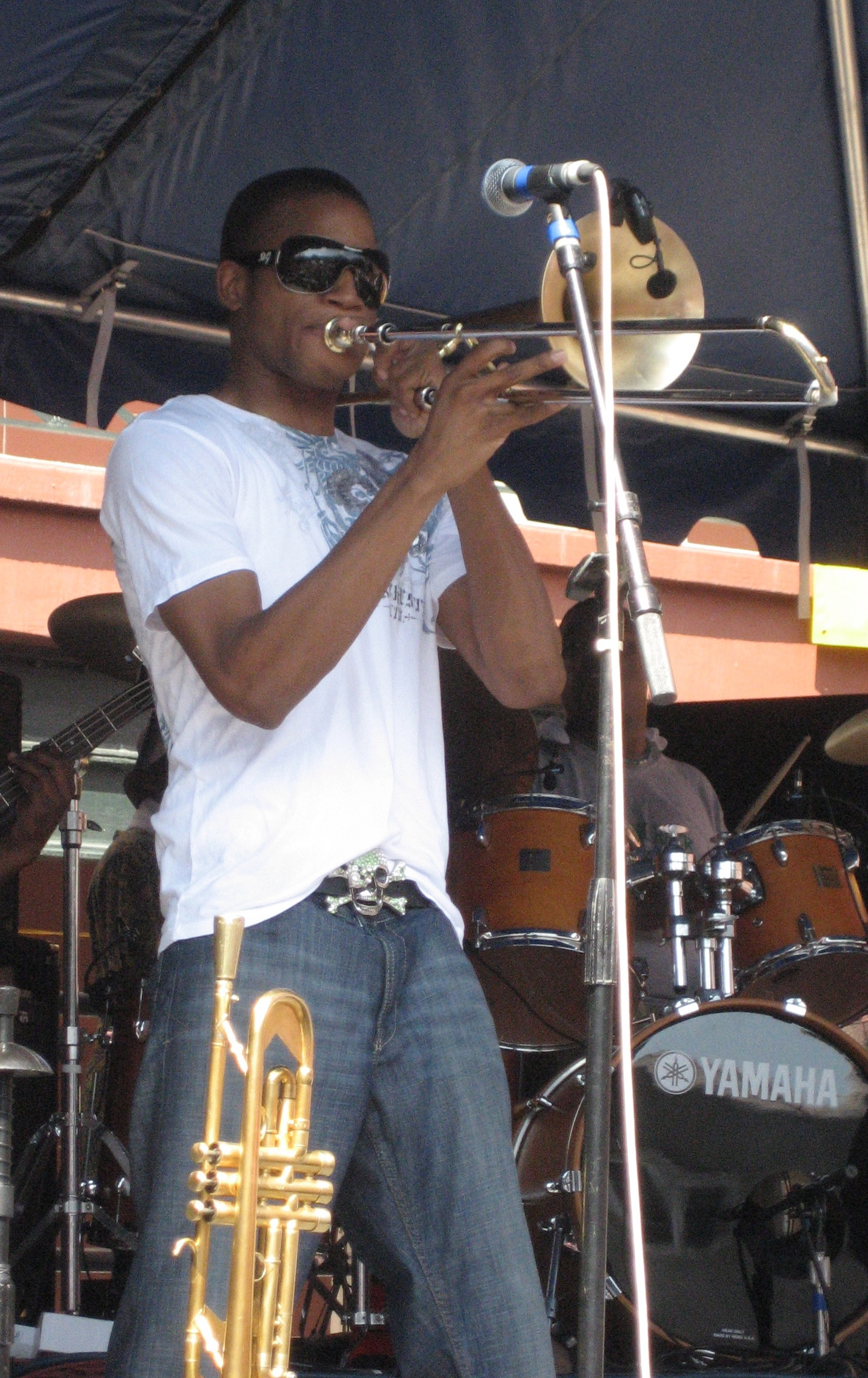 Troy "Trombone Shorty" Andrews with his band "Trombone Shorty & Orleans Avenue" performing at Satchmo Summer Fest, New Orleans.